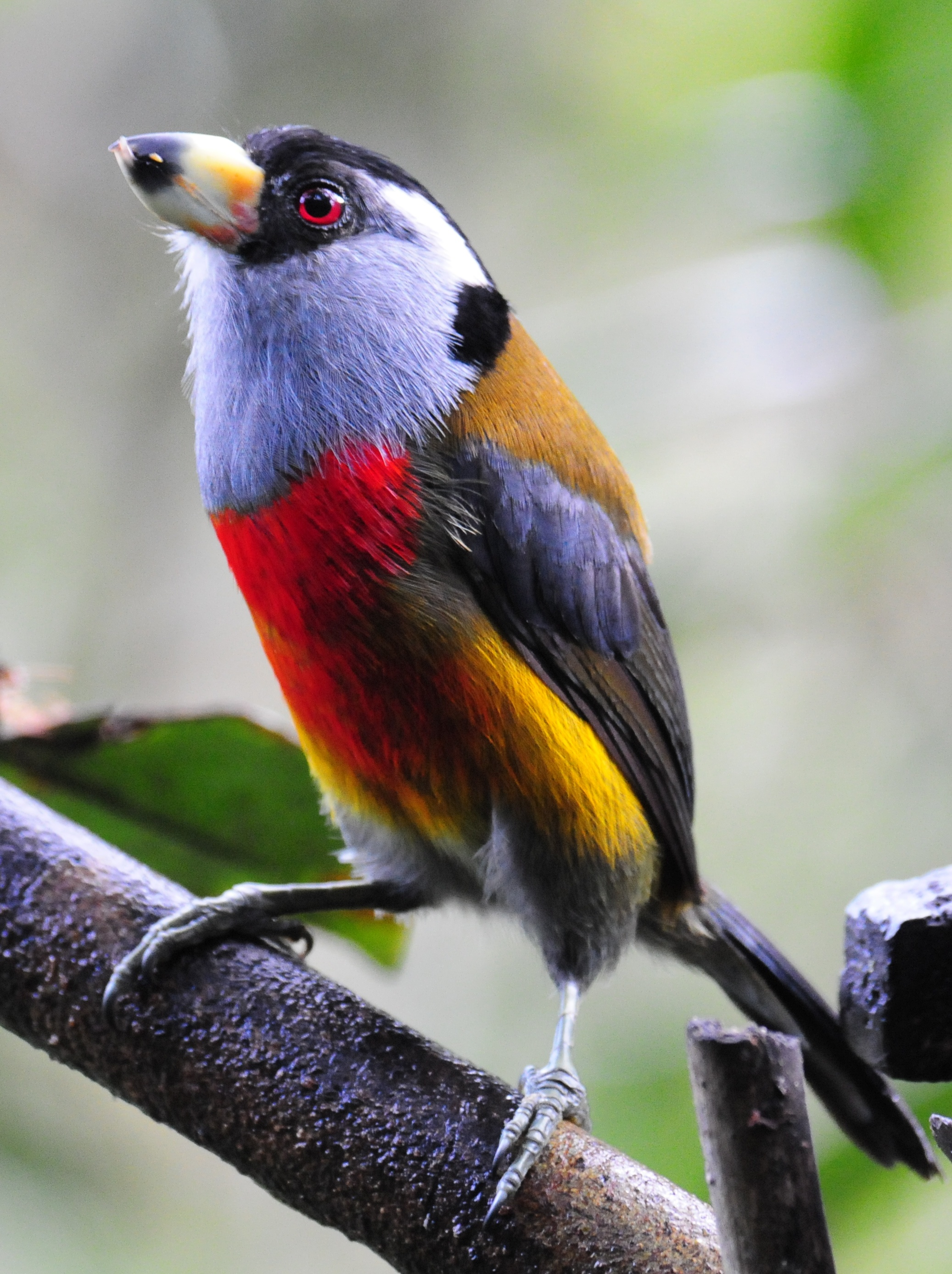 A Toucan Barbet in Mindo, Ecuador.